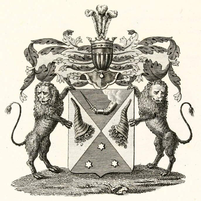 COA Akhmatov